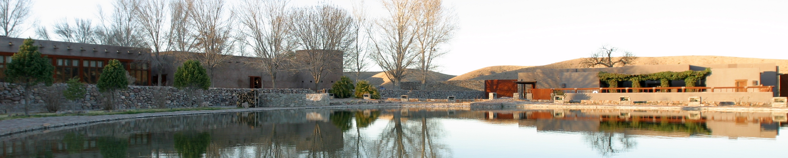 Cibolo Creek Ranch, Presidio County, Texas.